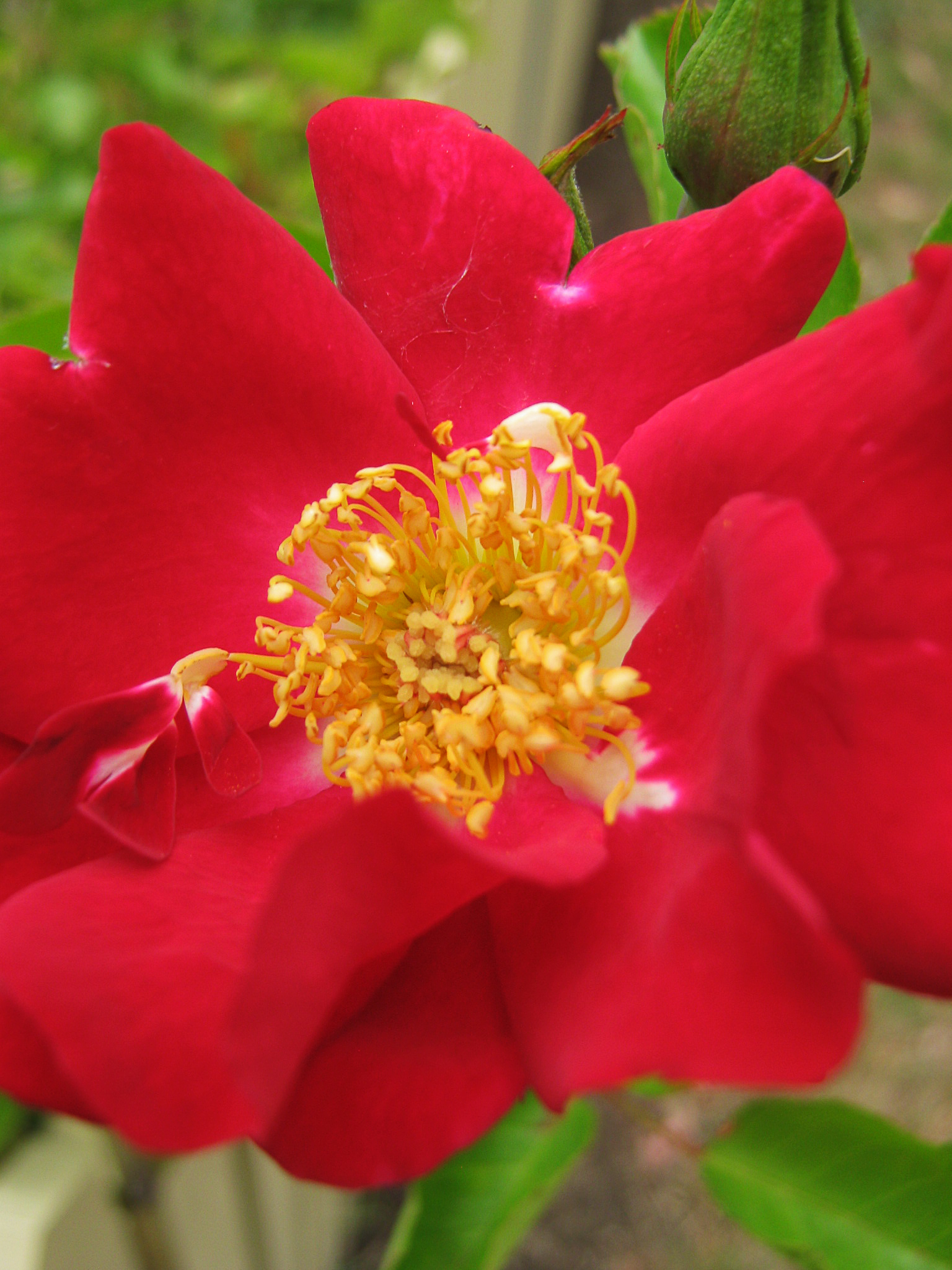 Rose 'Scorcher', Hybrid Gigantea by Alister Clark 1922; photographed in the Alister Clark Memorial Rose Garden, Bulla, Victoria